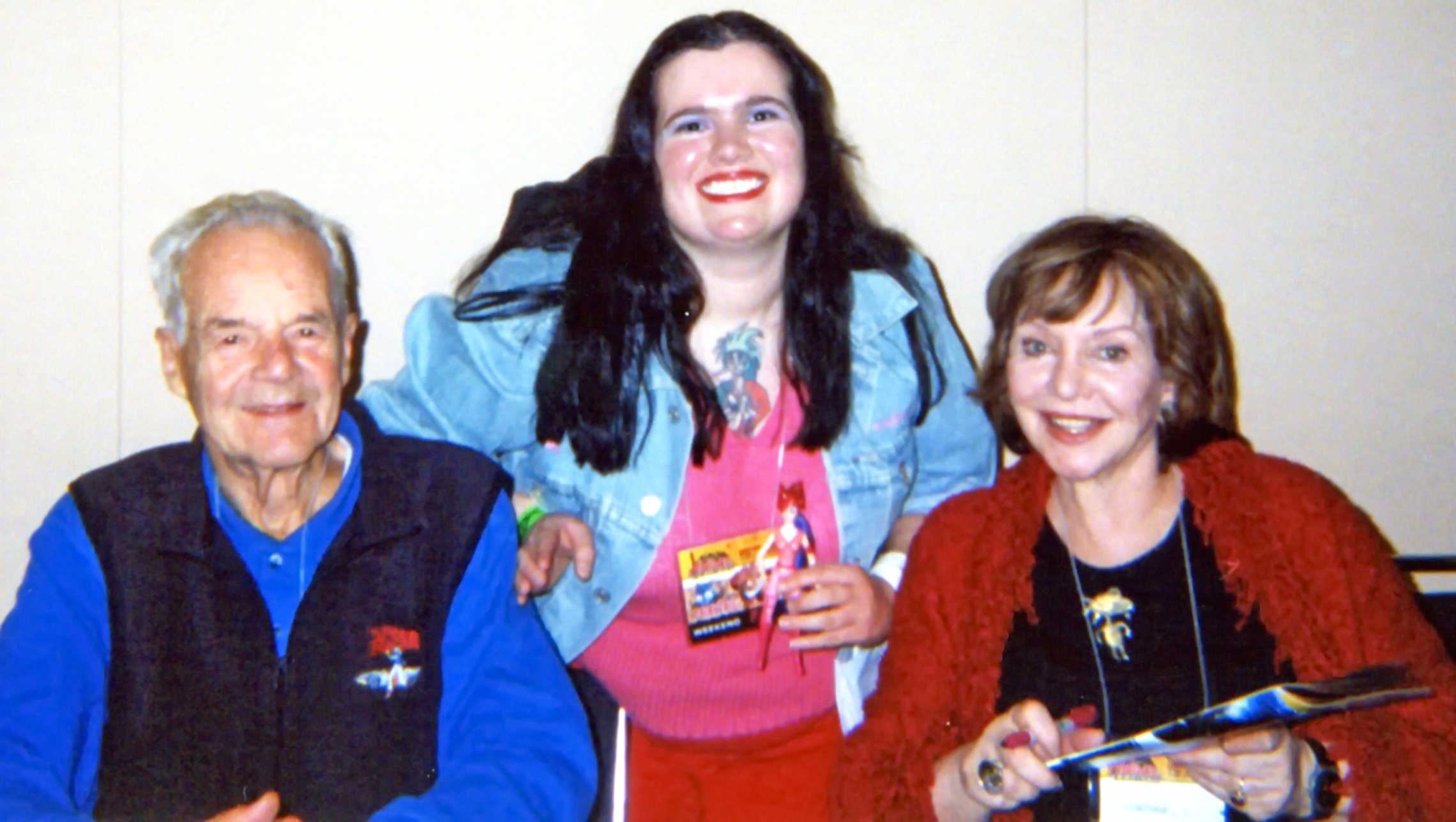 Myself (Lisa Miray Hayes) with Corinne Orr and Peter Fernandez at New York Anime Festival 2007